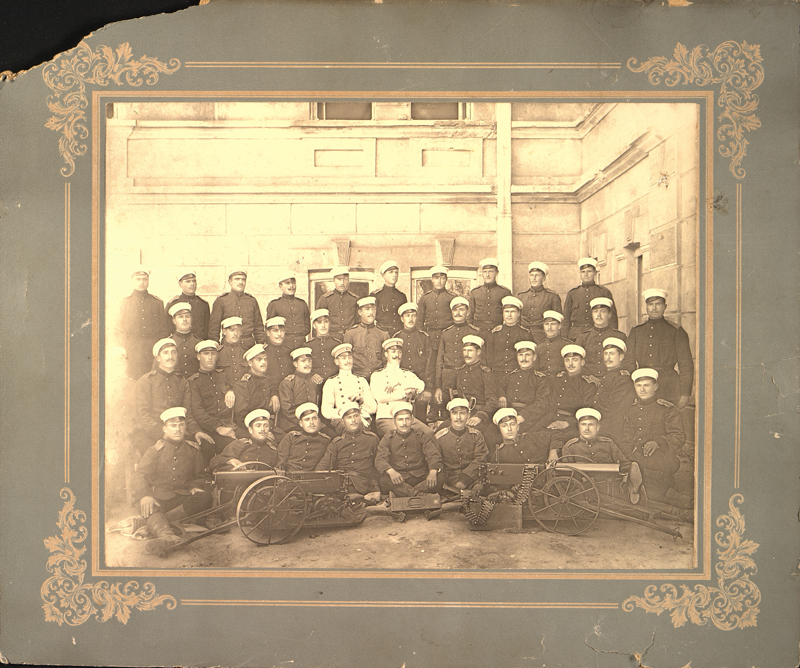 Course for officers and sergeants of the 8th Infantry Pimorski of Her Royal Highness Princess Marie Louise Regiment - Varna for learning new machine gun